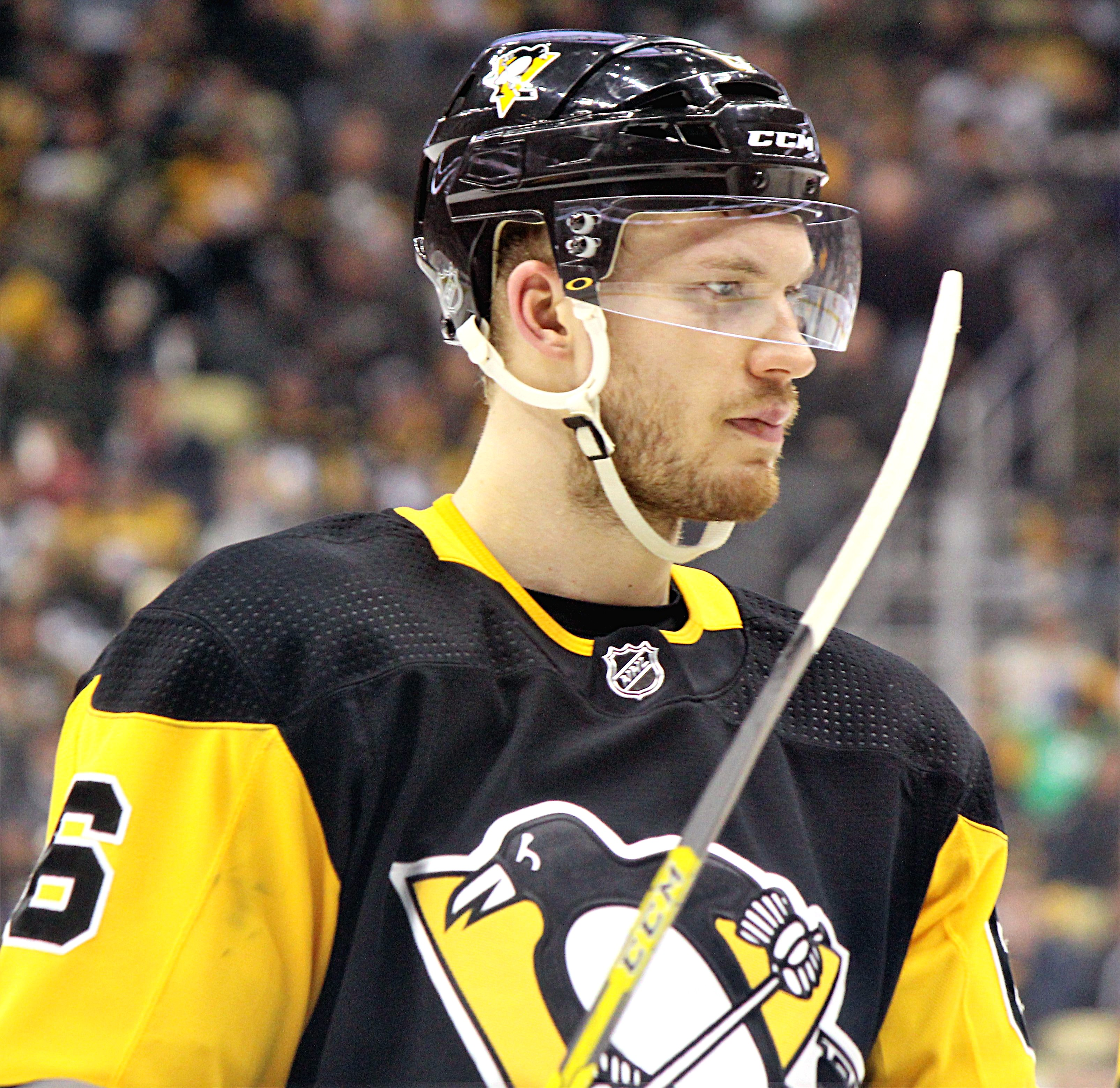 Pittsburgh Penguins defenseman Jamie Oleksiak during a game against the New York Islanders at PPG Paints Arena in Pittsburgh, PA. Saturday, March 3, 2018.